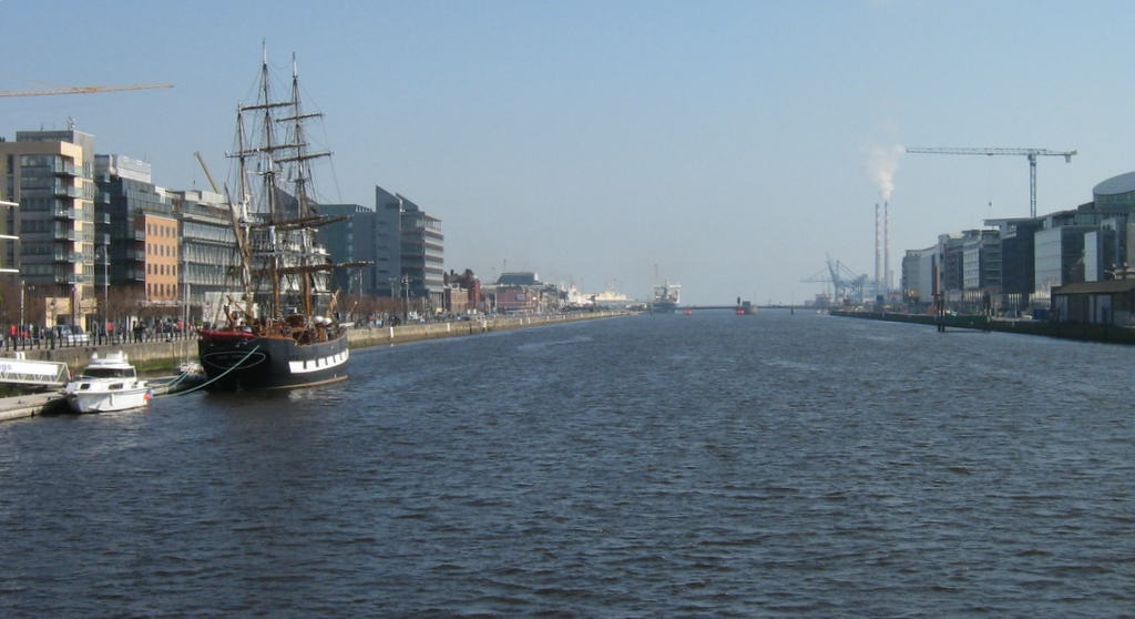 River Liffey